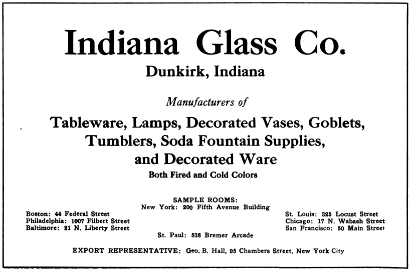 An advertisement for Indiana Glass Company from 1921